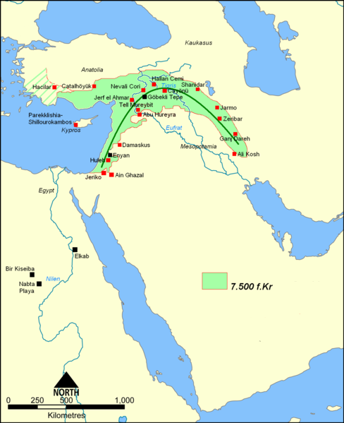 Map of Fertile Crescent 7500 BC in Danish